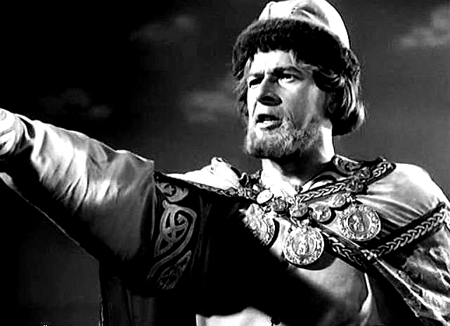 Nikolay Cherkasov as the title character in the film Alexander Nevsky (1938) by Sergey Eisenstein.